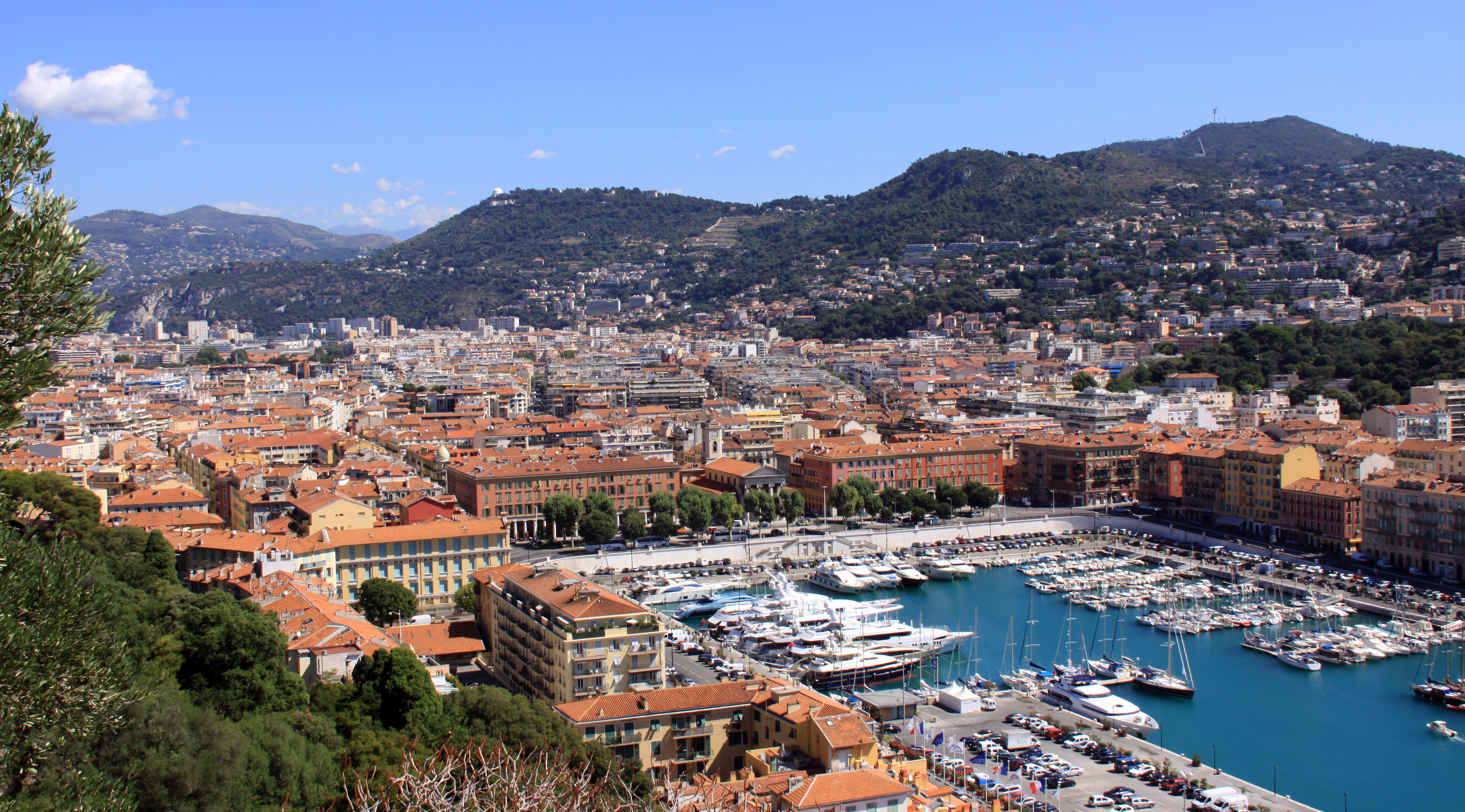 Nice, Harbour (Port)